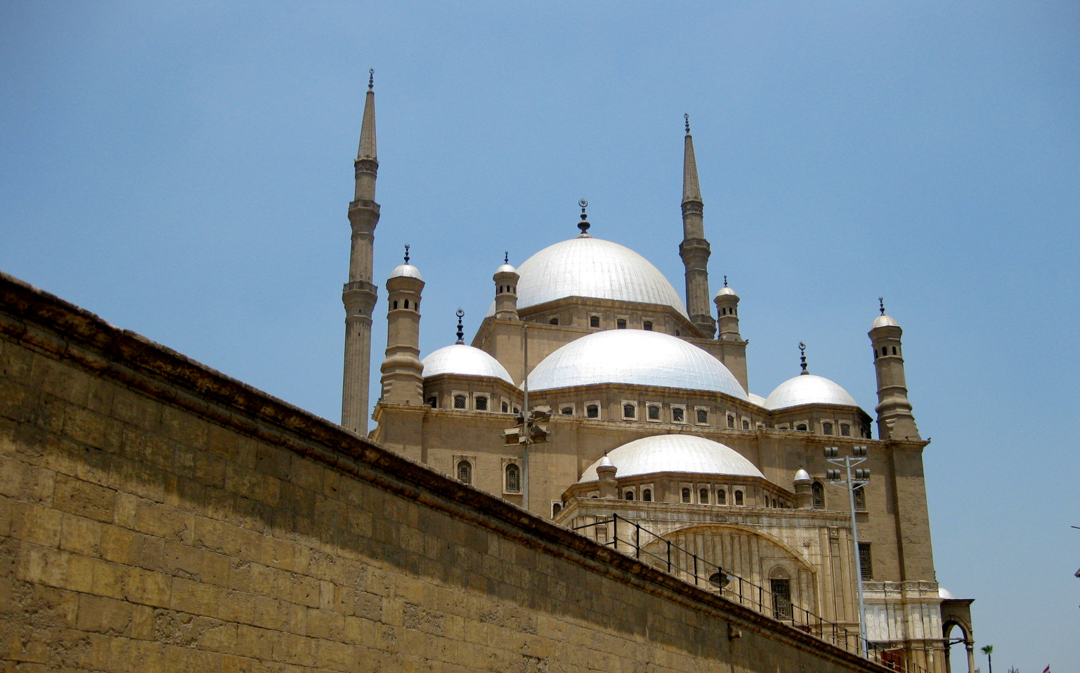 Mosque